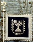 President of Israel Banner